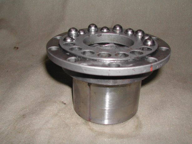 KdF-82, self-locking differential